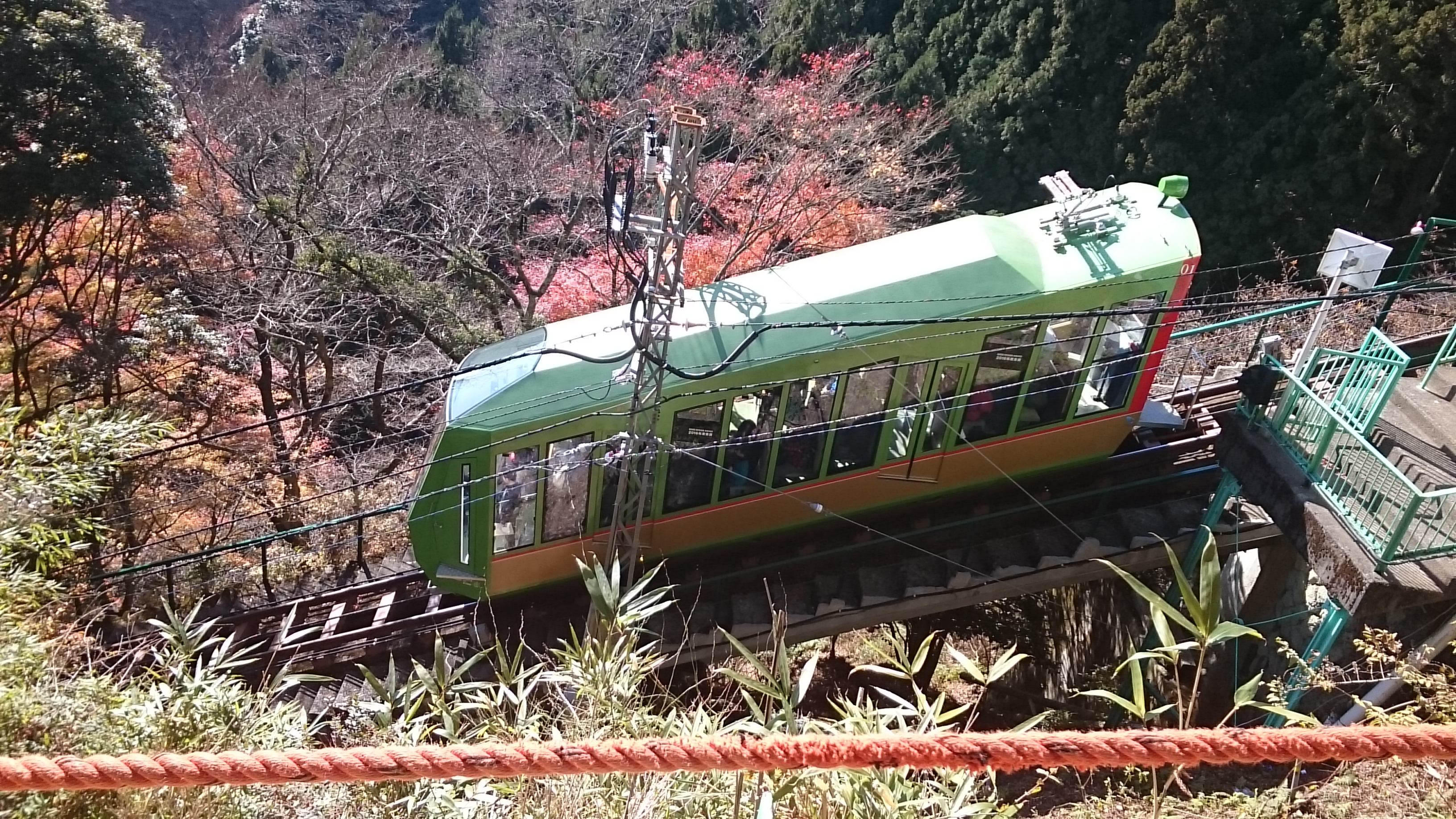 Ōyama Cable Car No.1 funicular from Afurijinja Station.